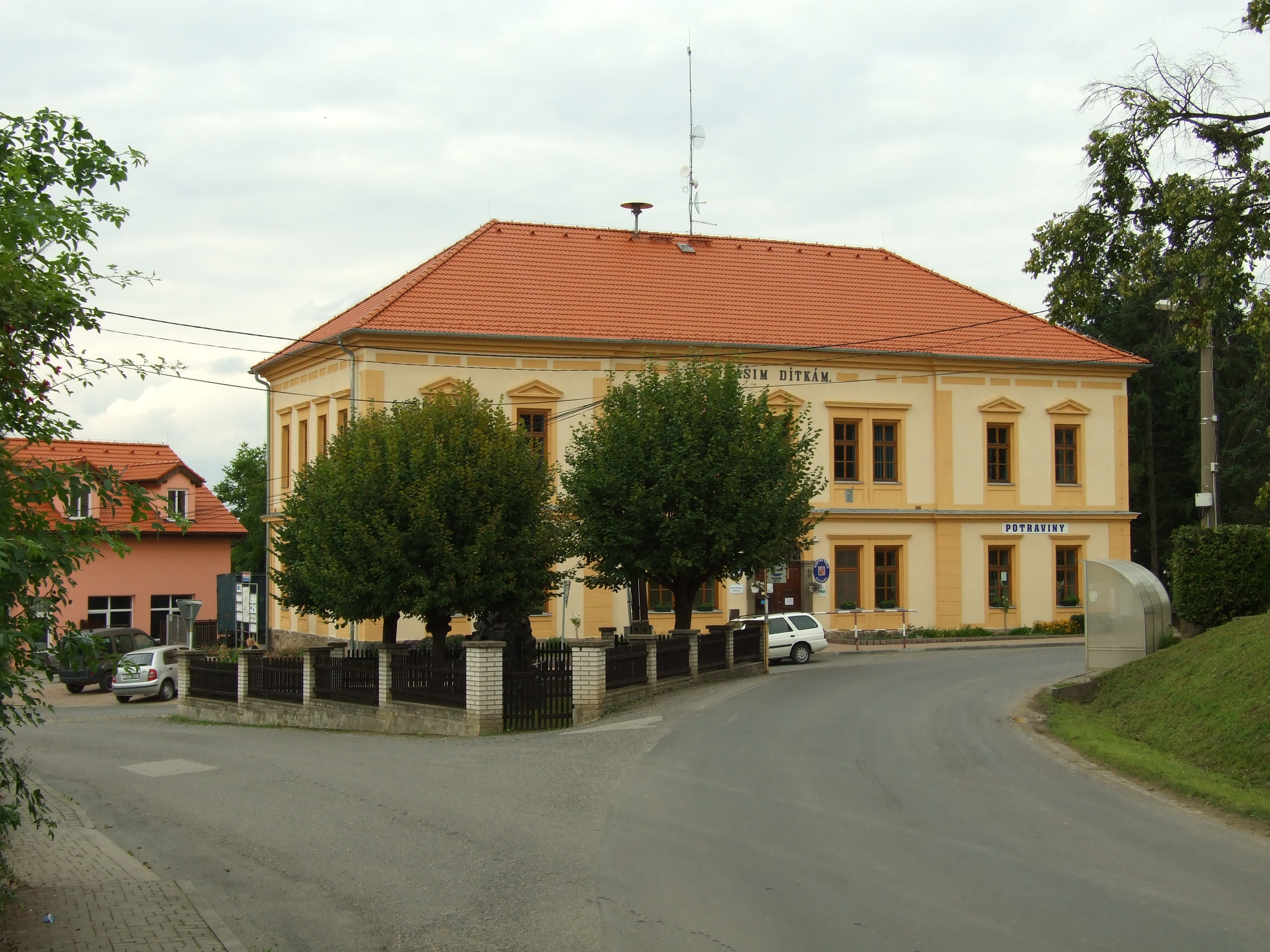 A school in the town of Svinaře - Beroun District, Central Bohemian Region, CZ